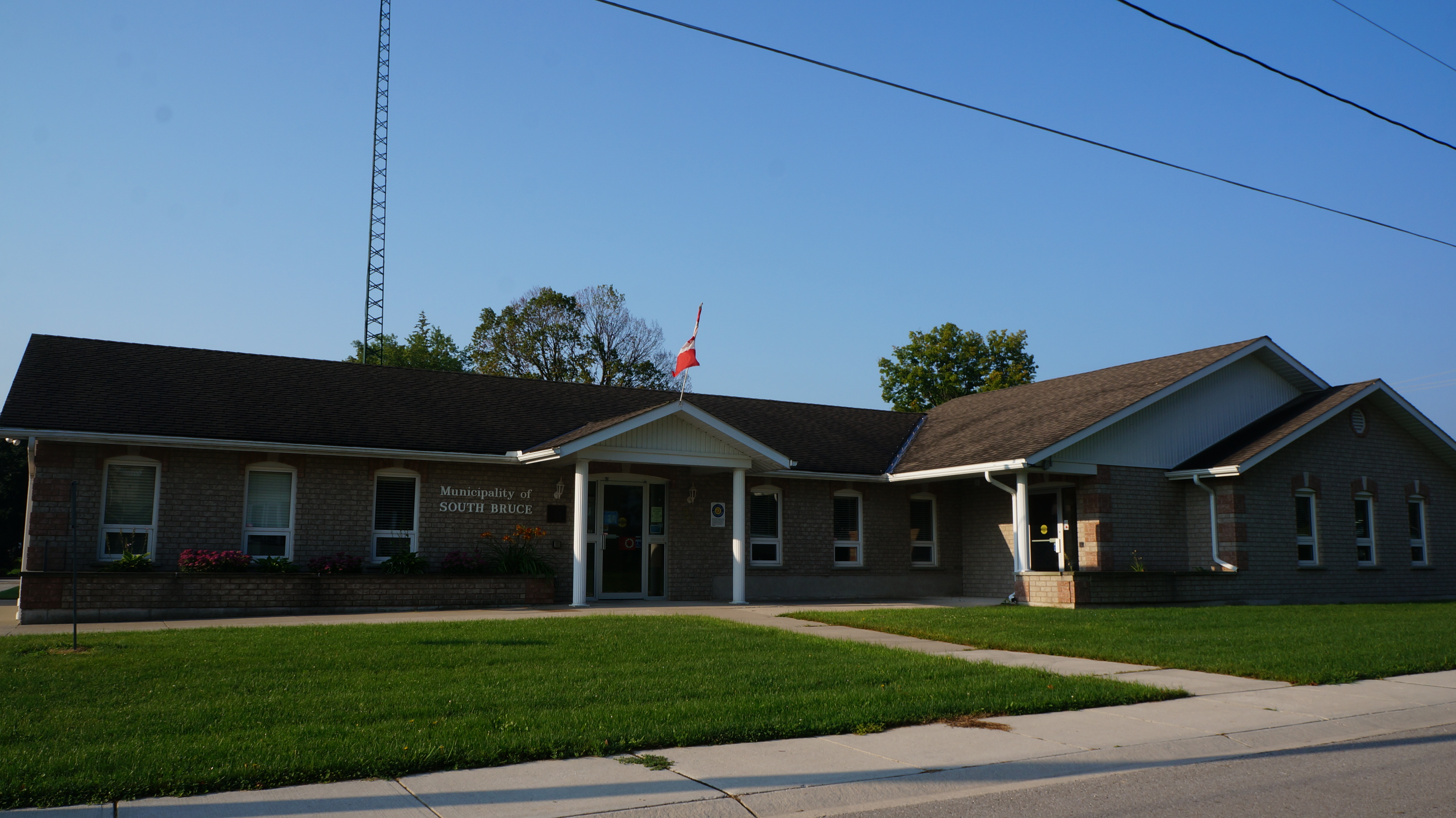 The South Bruce Town Hall in Teeswater, ON